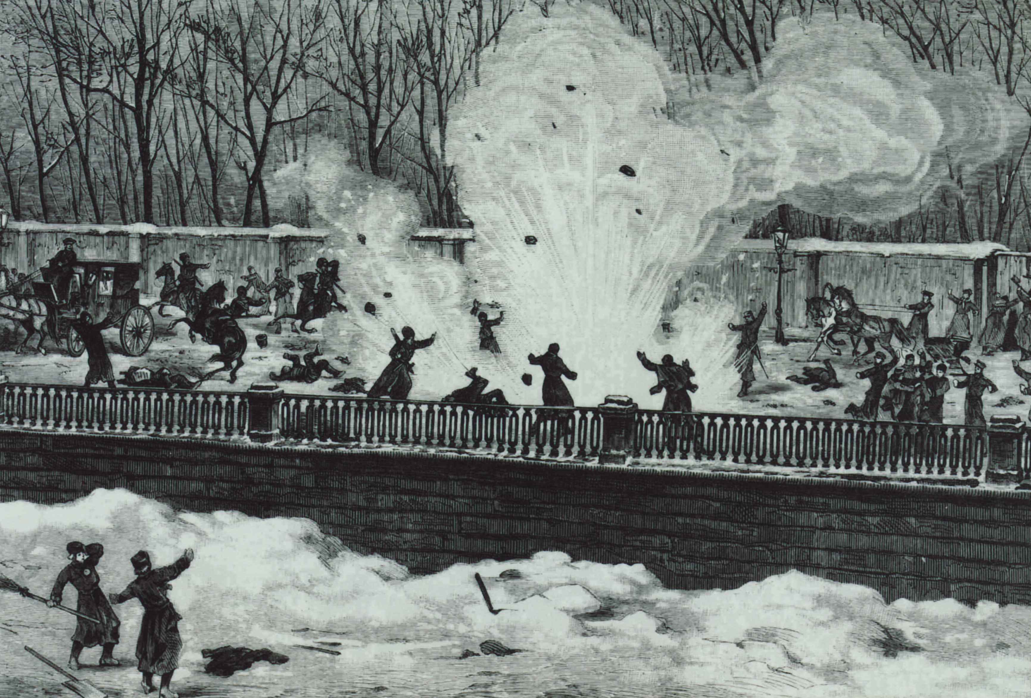 "Narodnaja Volia" Attempt on Russian emperor Aleksandr II life - 01.03.1881. Second blast.